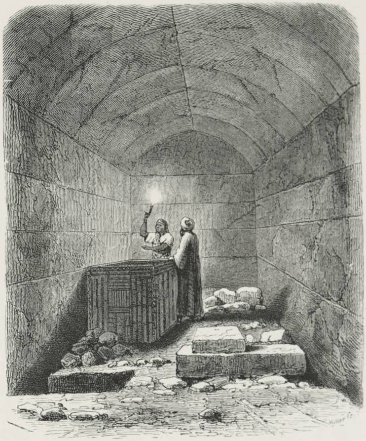 Sepulchral Chamber of Men-ka-ra. Men standing in a high-ceilinged tomb chamber.